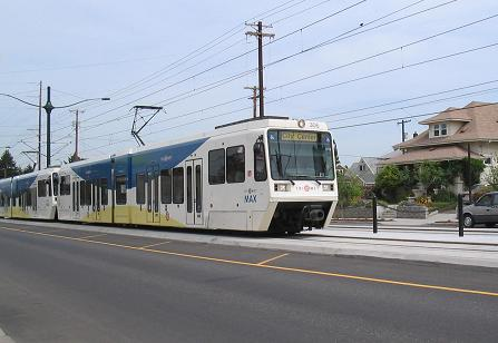 TriMet MAX Yellow Line train on opening day with new Type 3 cars. This work has been released into the public domain by its author, Alphalife. This applies worldwide. In some countries this may not be legally possible; if so: Alphalife grants anyone the right to use this work for any purpose, without any conditions, unless such conditions are required by law.